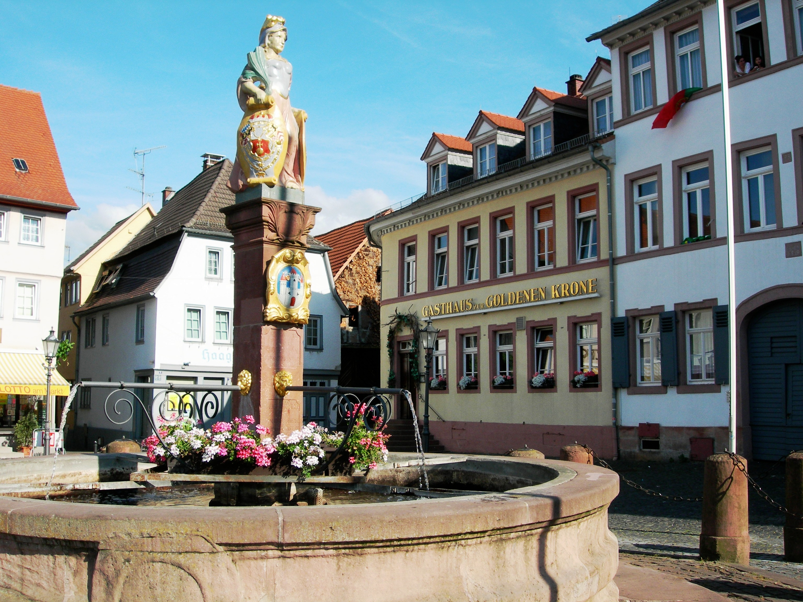 Groß-Umstadt (Hesse), market square